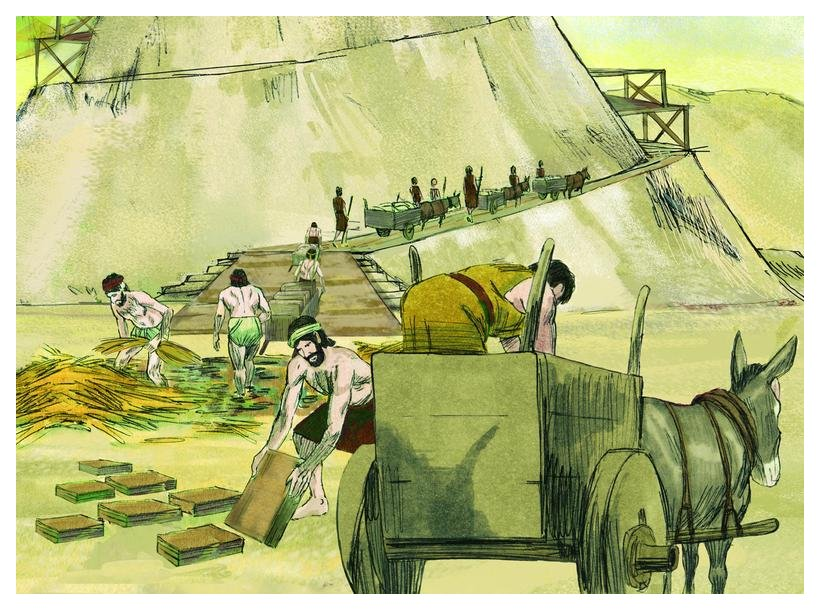 Biblical illustration of Book of Genesis Chapter 11